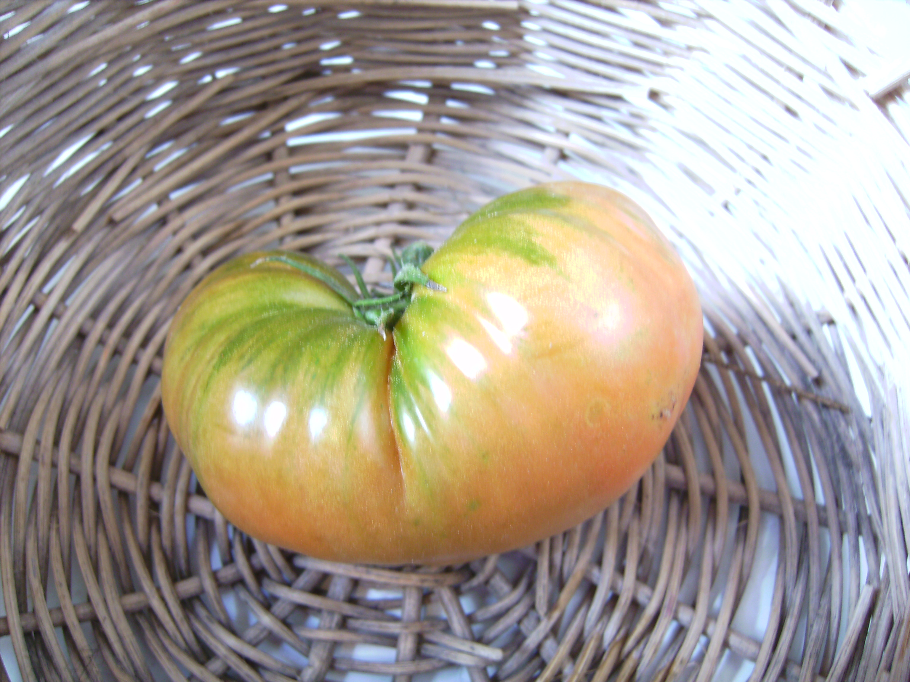 Tomato cultivar Marmande in Castelltalla,t Catalonia